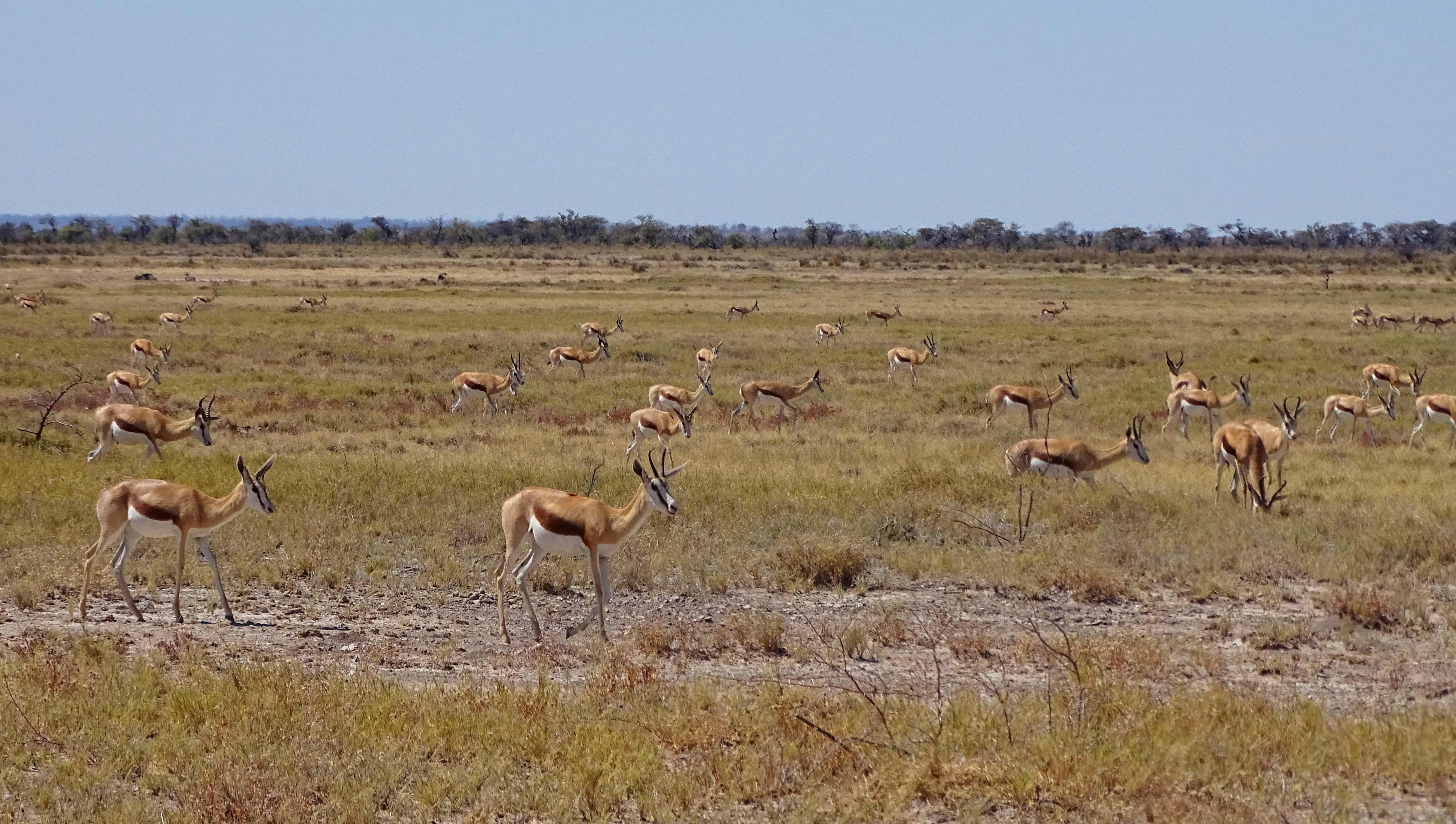 A group of springboks passing through the savanna in Etosha National Park, Namibia.